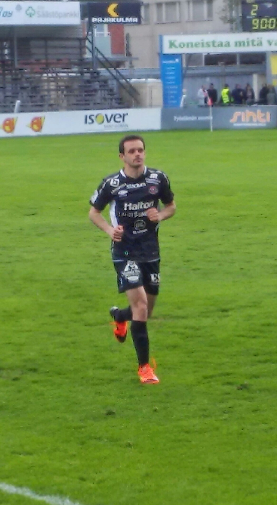 Drilon Shala, Ilves vs FC Lahti May 2015